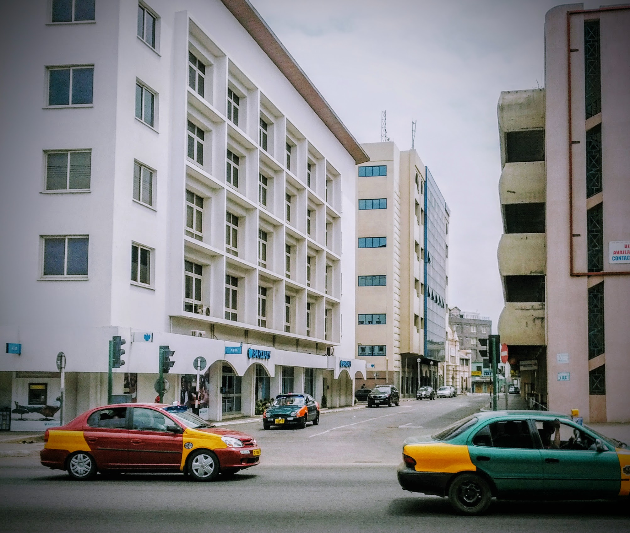 Accra's High Street showing buildings and three taxis